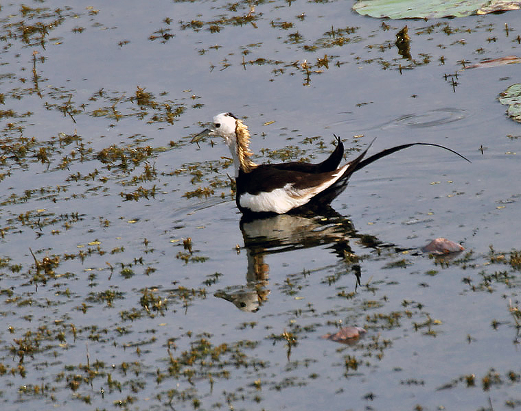 Pheasant-tailed Jacana Hydrophasianus chirurgus in Hyderabad , India.